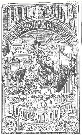 engraving of "La Constancia" Alcohol and Sugar Factory property of Jose Cuervo Lsbastida, in Atequiza Mexico.